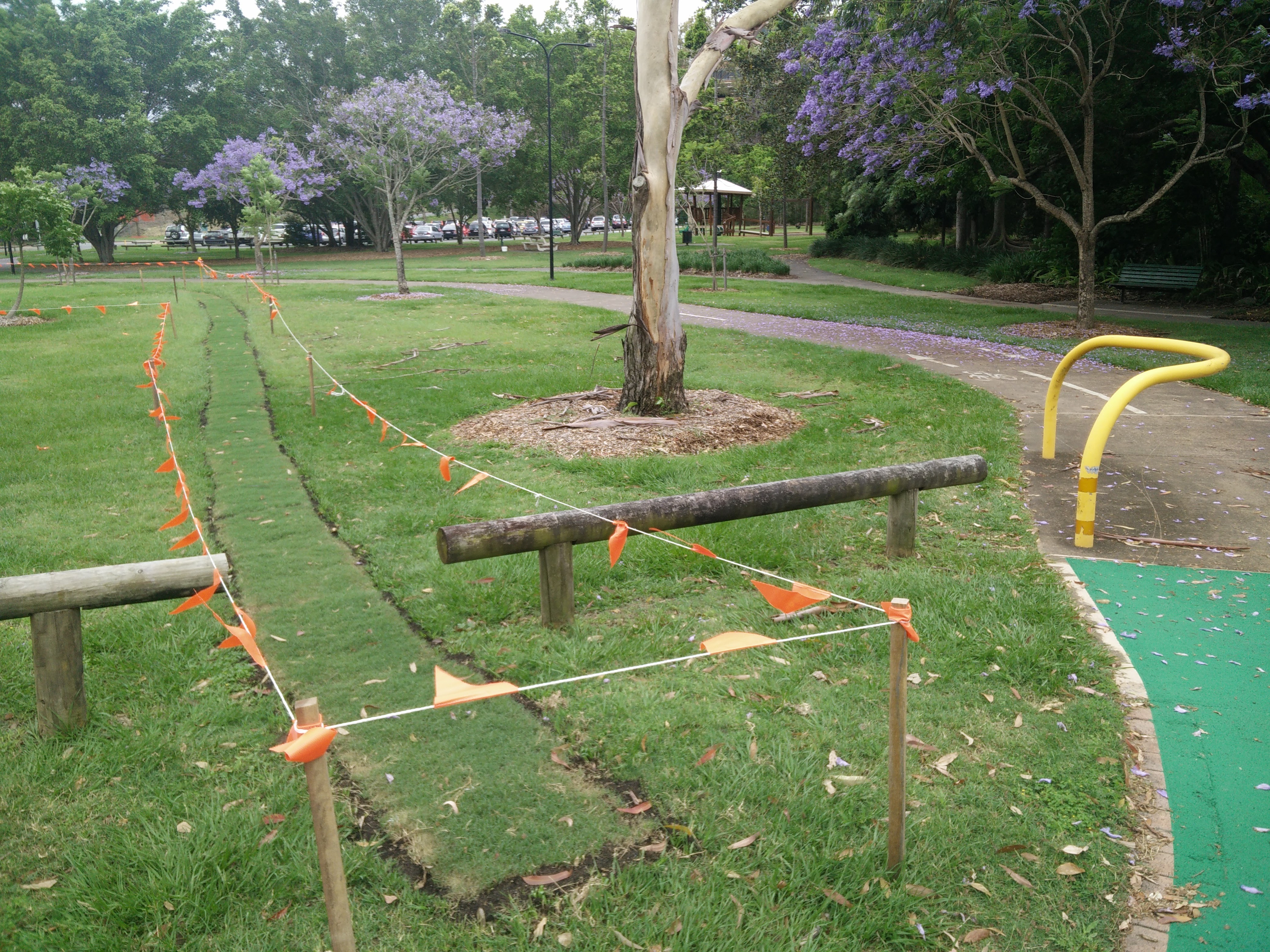 A desired path next to an official path is roped off for re-vegetation.